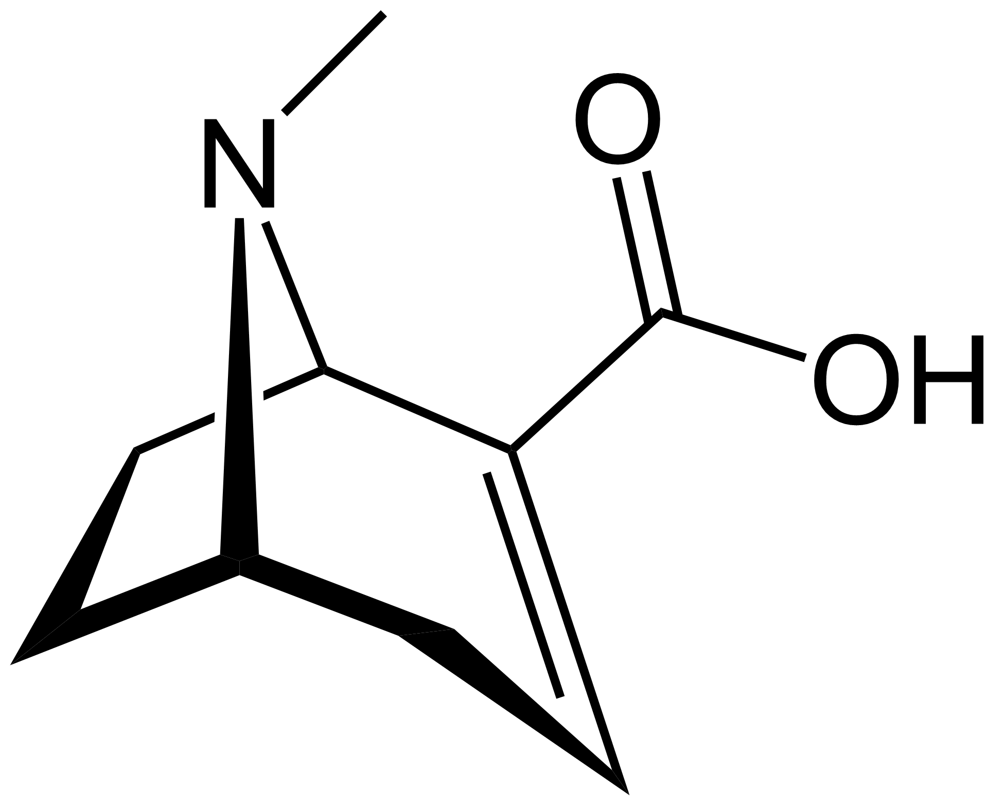 Skeletal formula of ecgonidine